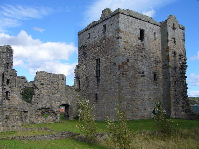 Rosyth Castle